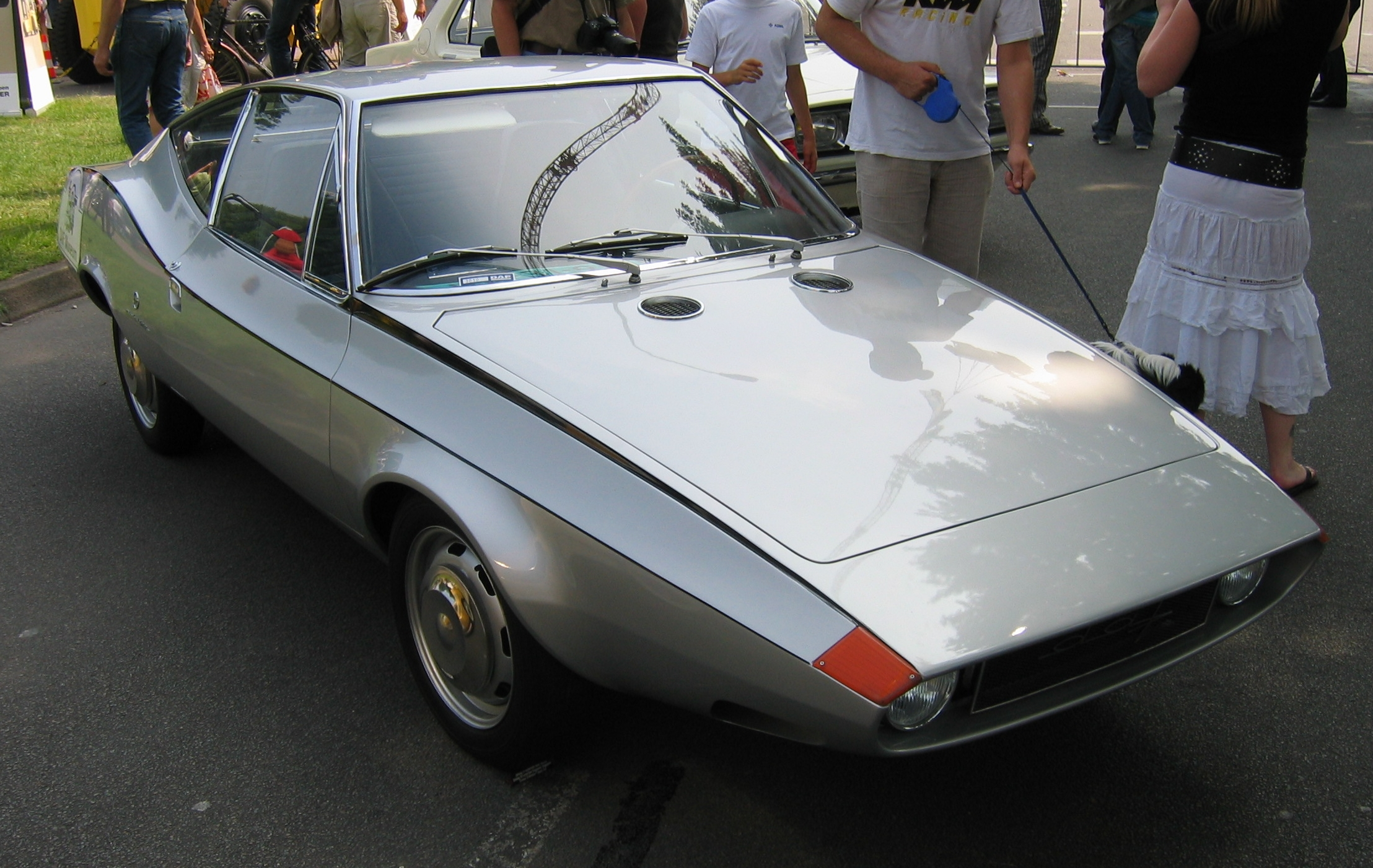 A DAF prototype at the DAF exposition during the Eindhoven Pole Position weekend.